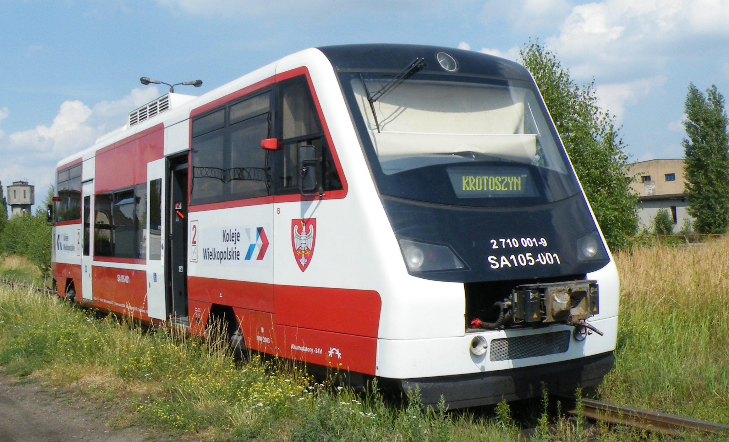 Railbus PKP class SA105-001 operated by Koleje Wielkopolskie